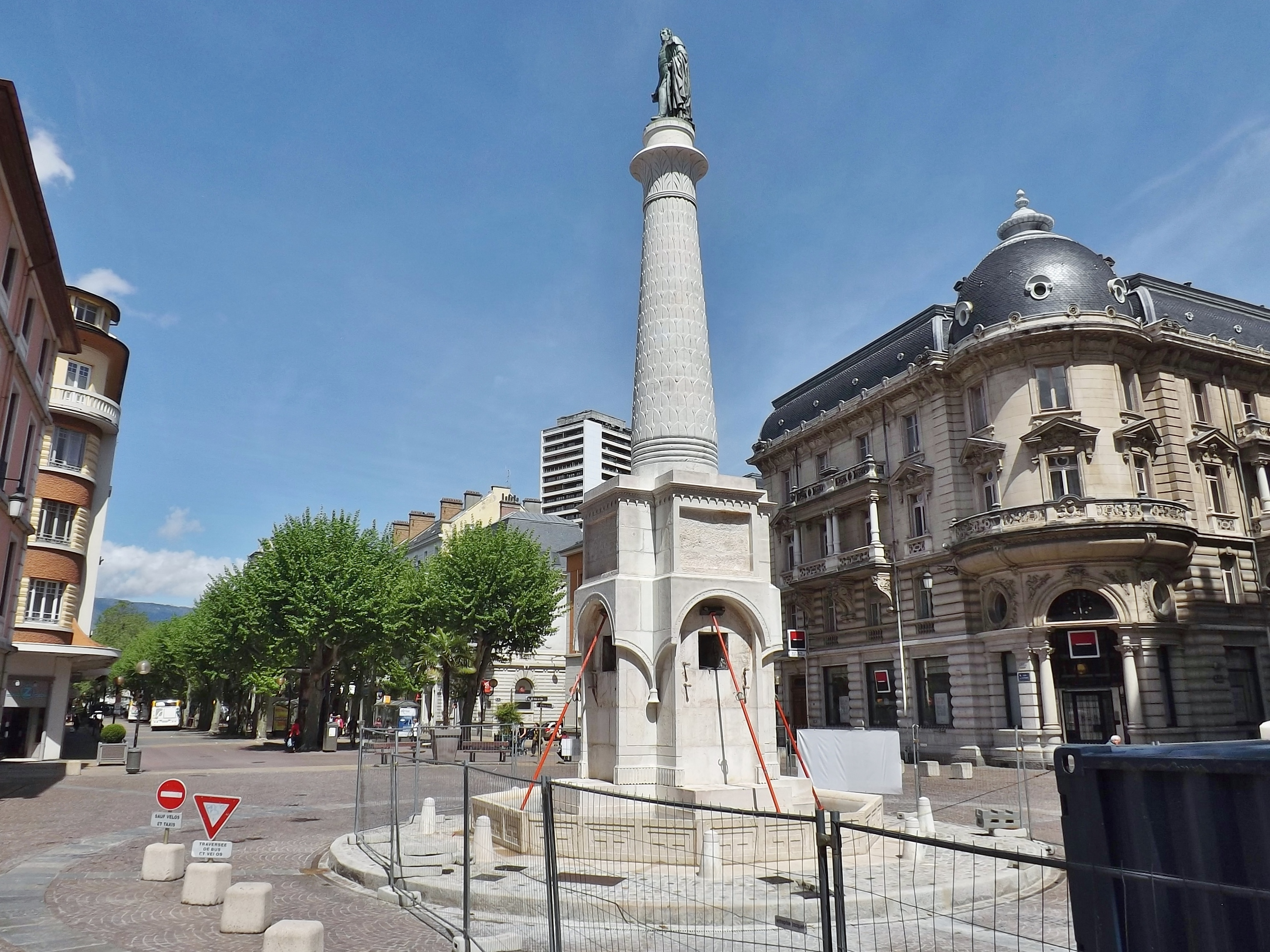 Sight of the fontaine des éléphants fountain of Chambéry, Savoie (France), without its four elephants during its restoration, a few days before their return, in May and June, 2015.